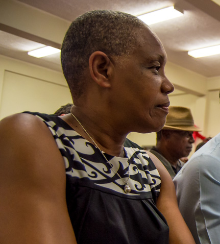 Hon. Marcella Liburd